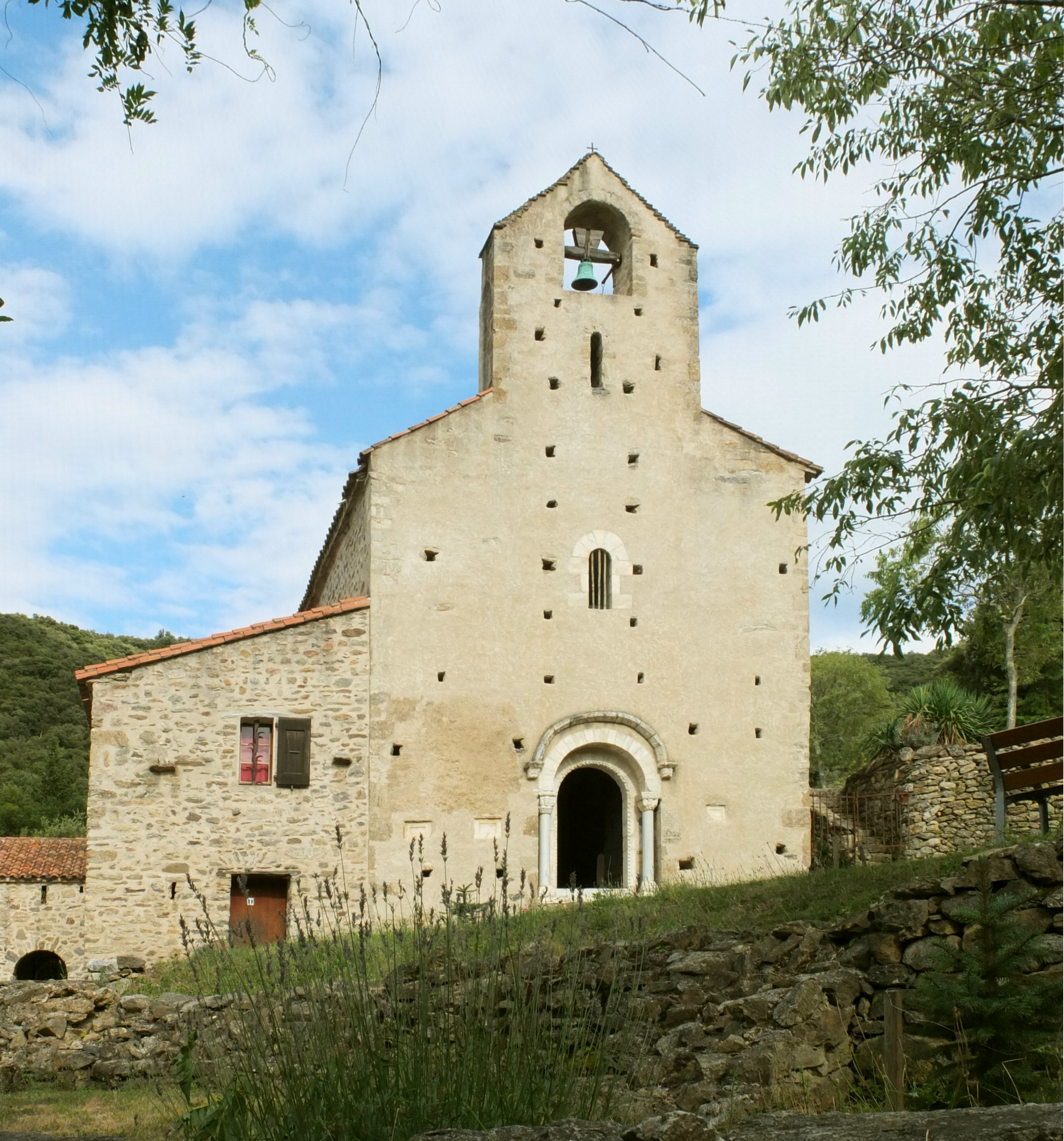 Romanesque chapel Santa Maria del Vilar, 11th century, Villelongue-dels-Monts, France (view from W).